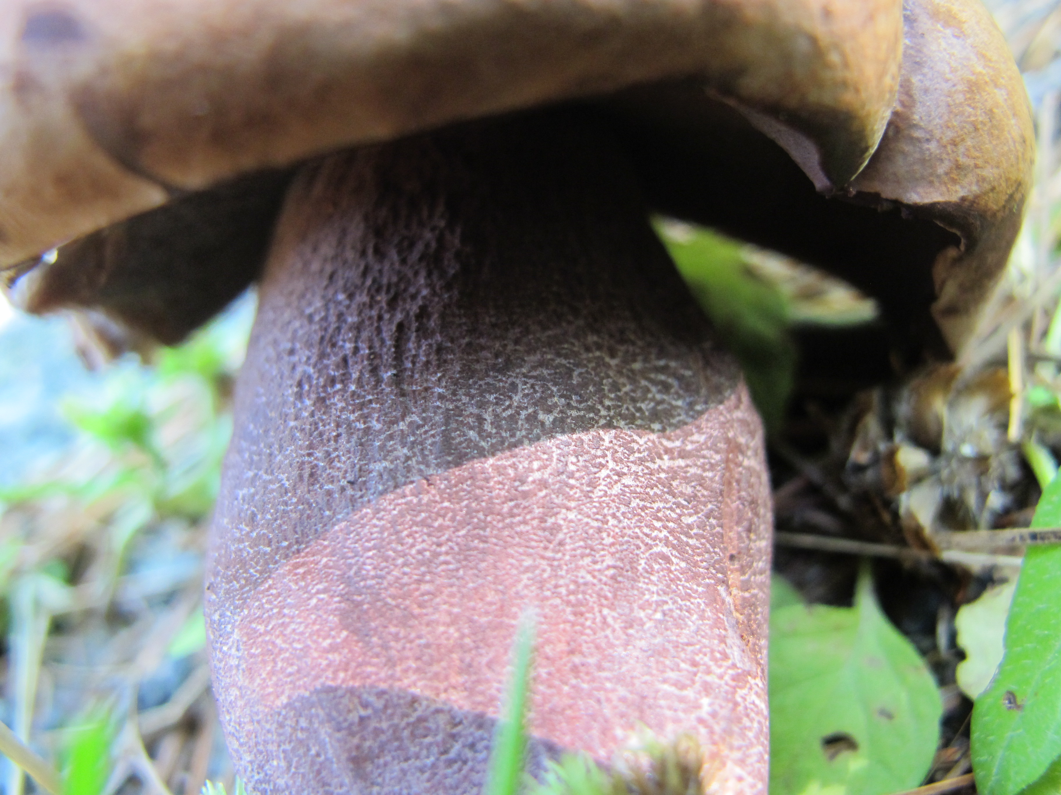 A closeup of the stipe surface of Sutorius eximius, showing the transversely scissurate scales.